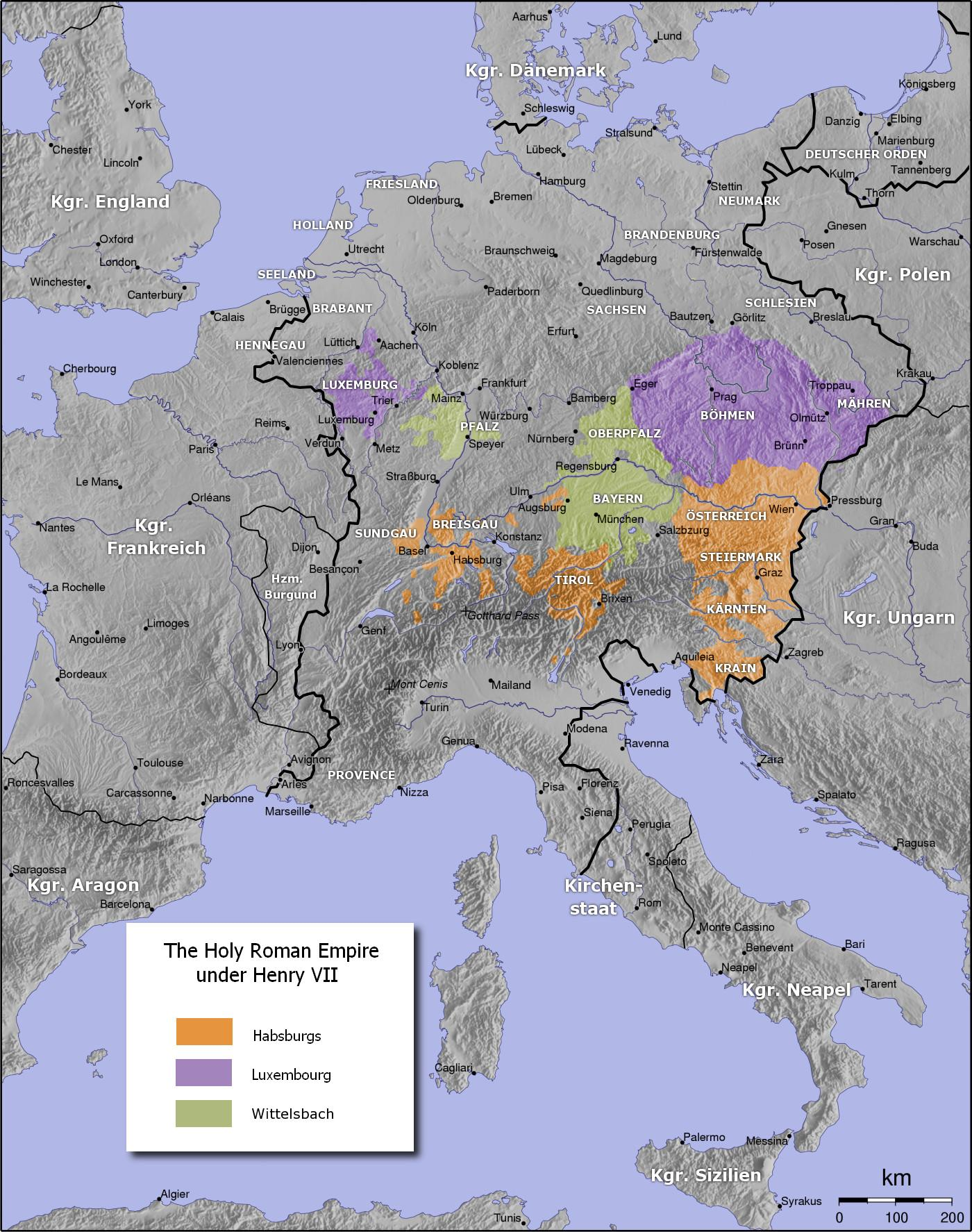 Territories under direct rule of Henry IV